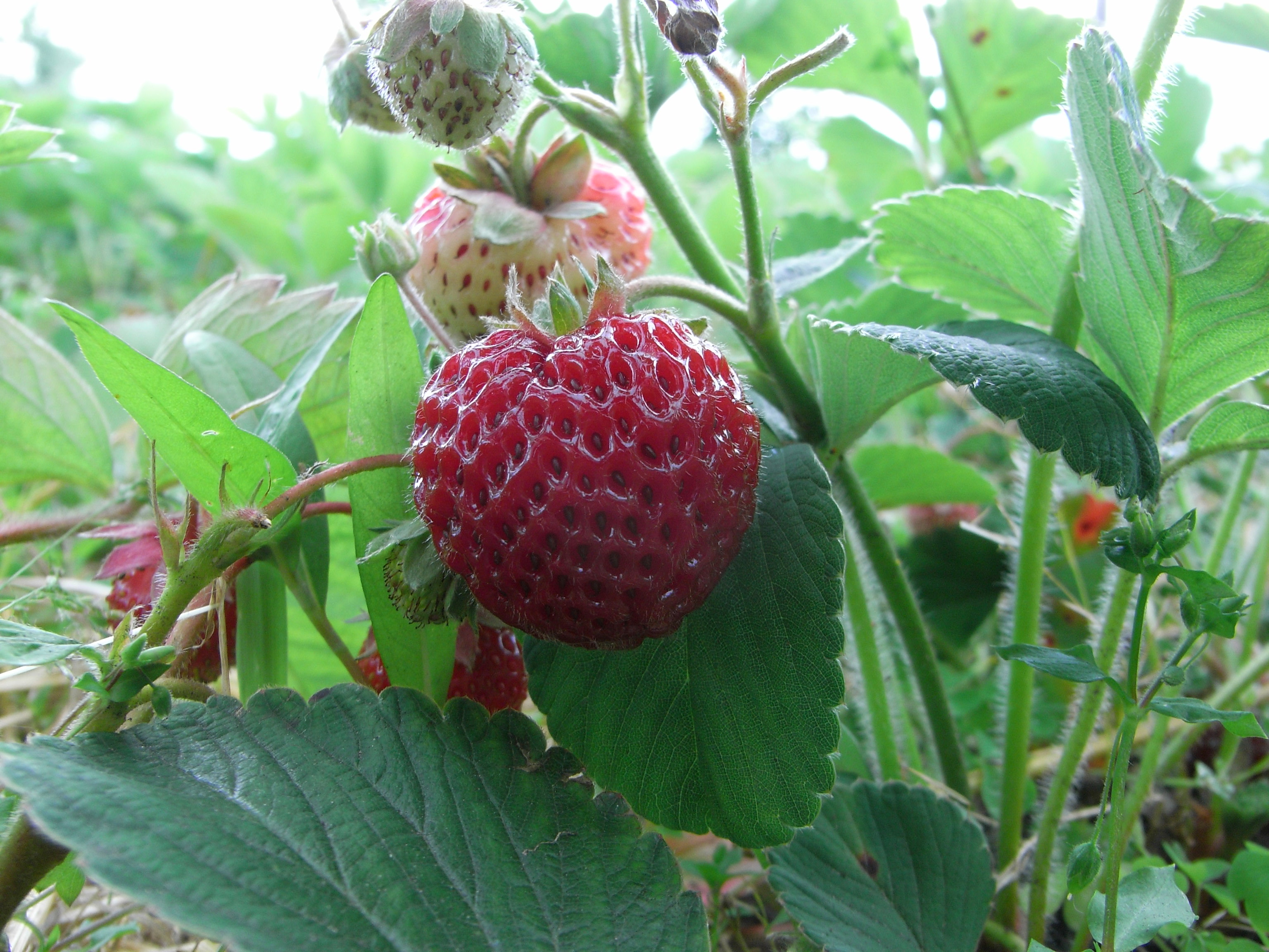 Strawberry 'Mieze Schindler', breeding of Otto Schindler of Pillnitz (Germany)